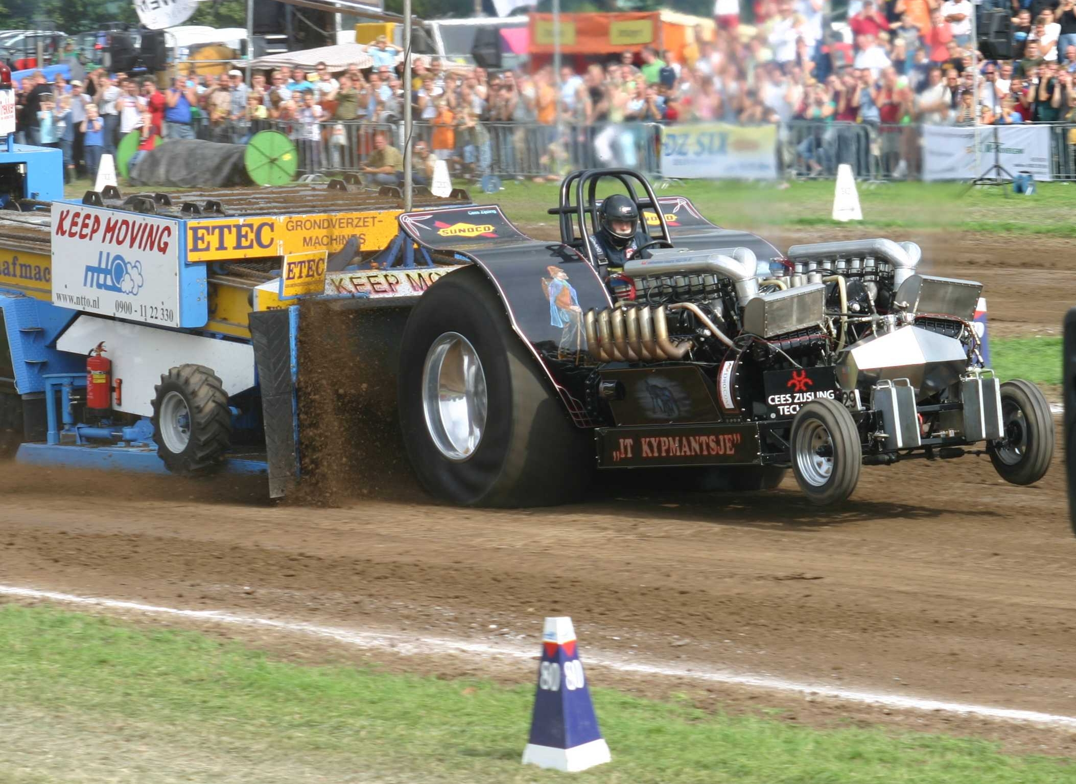 "Kypmantsje" tractor during a race